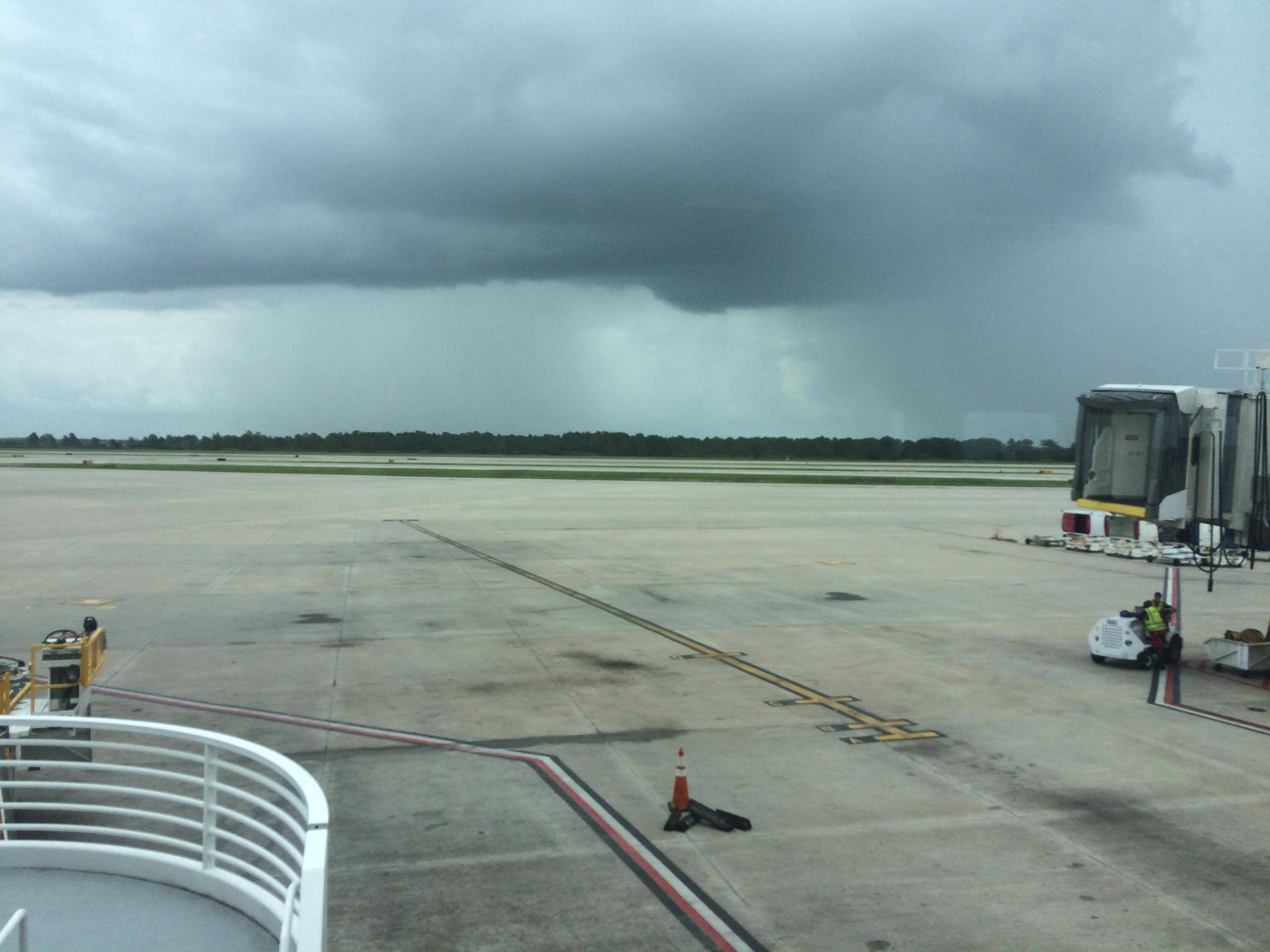 A thunderstorm part of Hurricane Hermine, shortly after the hurricane achieved Category 1 status.